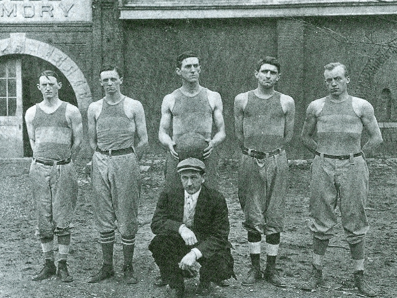 1911-12 University of Kentucky Wildcat Basketball Team coach by E. R. Sweetland: Standing (l to r) : Brinkley Barnett, R.C. Preston, W.C. Harrison, D.W. Hart, Jake Gaiser Kneeling: Team Manager Giles Meadors